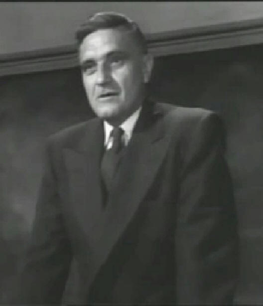 Morris Ankrum in Rocketship X-M (cropped screenshot)